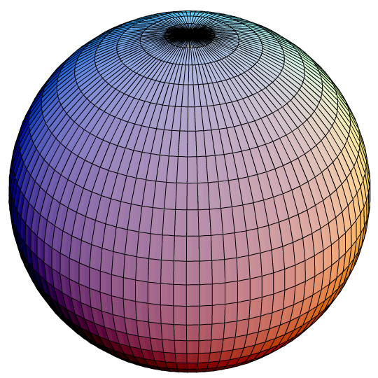 A rendering of a parametrically plotted sphere.